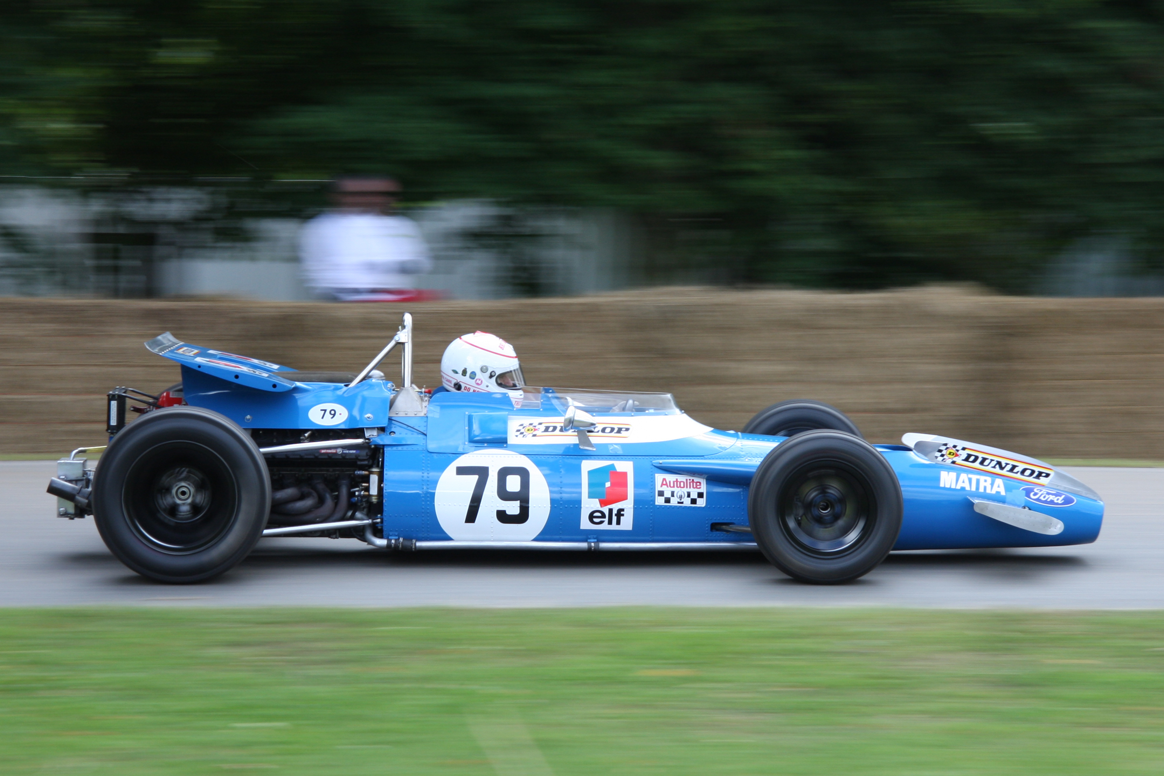 The Matra MS80 being demonstrated at the 2008 Goodwood Festival of Speed